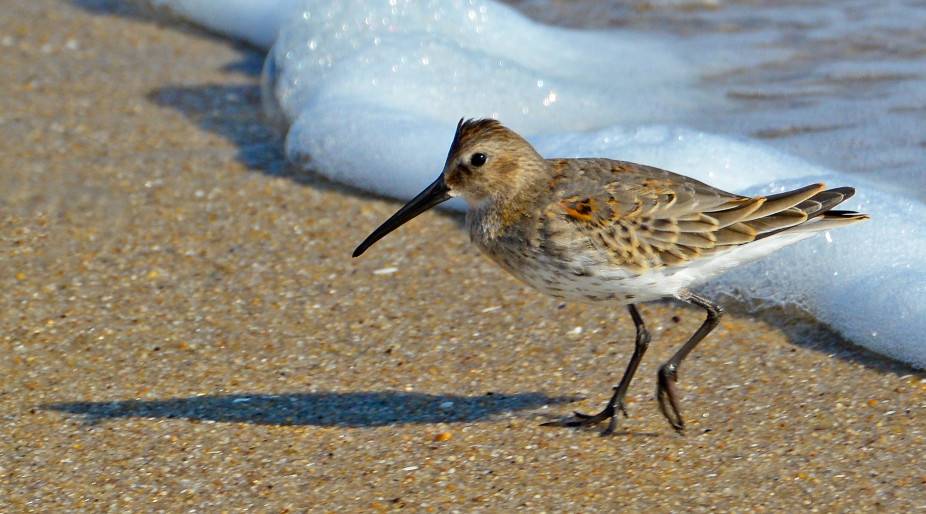 Dunlin Calidris alpina, Sandy Hook, New Jersey, USA.